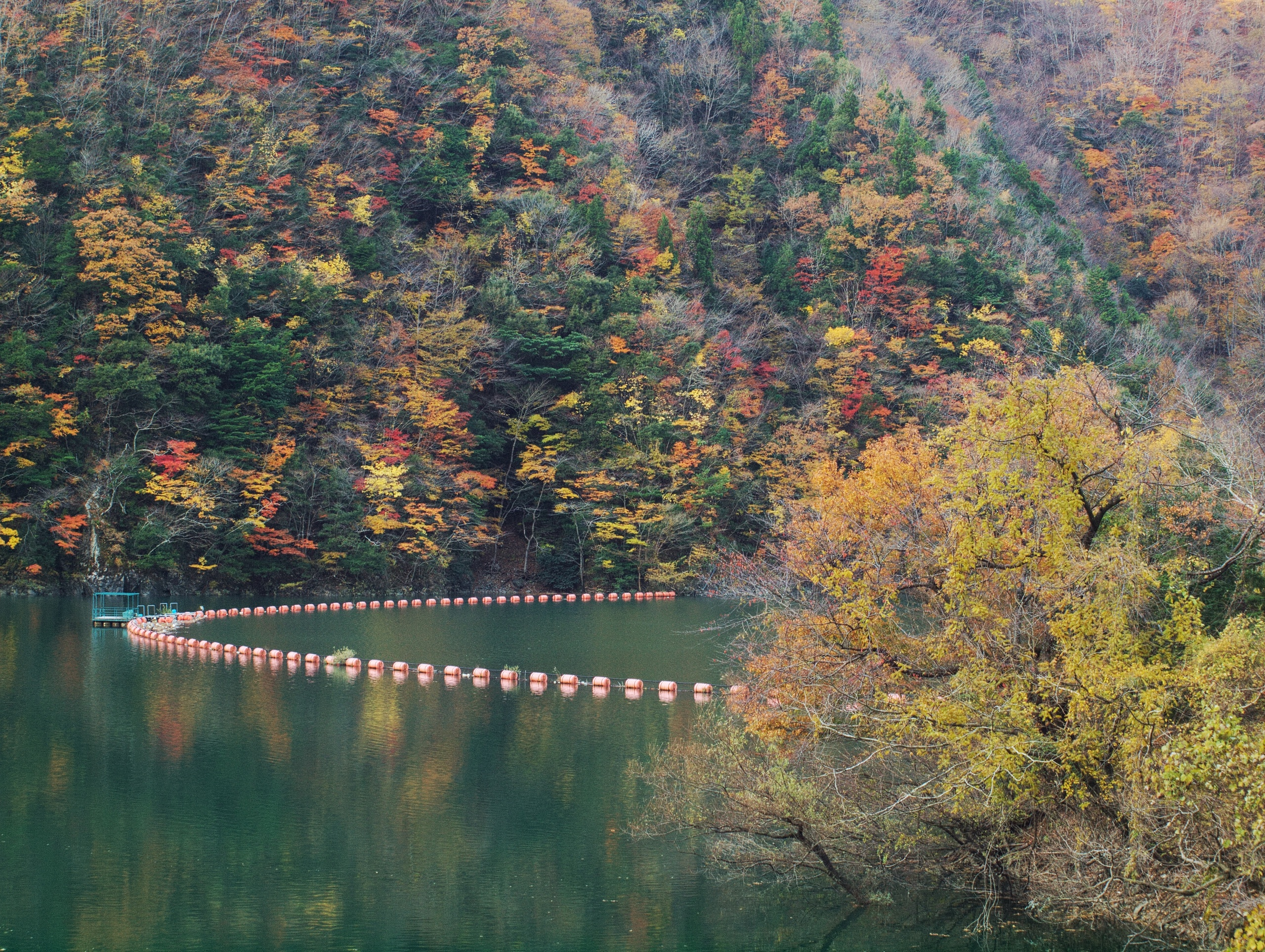 Komadate, Toyone, Kitashitara District, Aichi Prefecture 449-0402, Japan